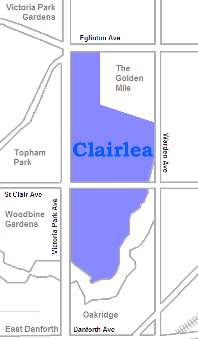 map of Clairlea